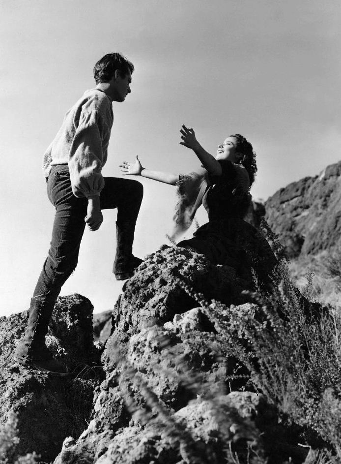 Promotional still from the 1939 film Wuthering Heights, published on the front cover of National Board of Review Magazine